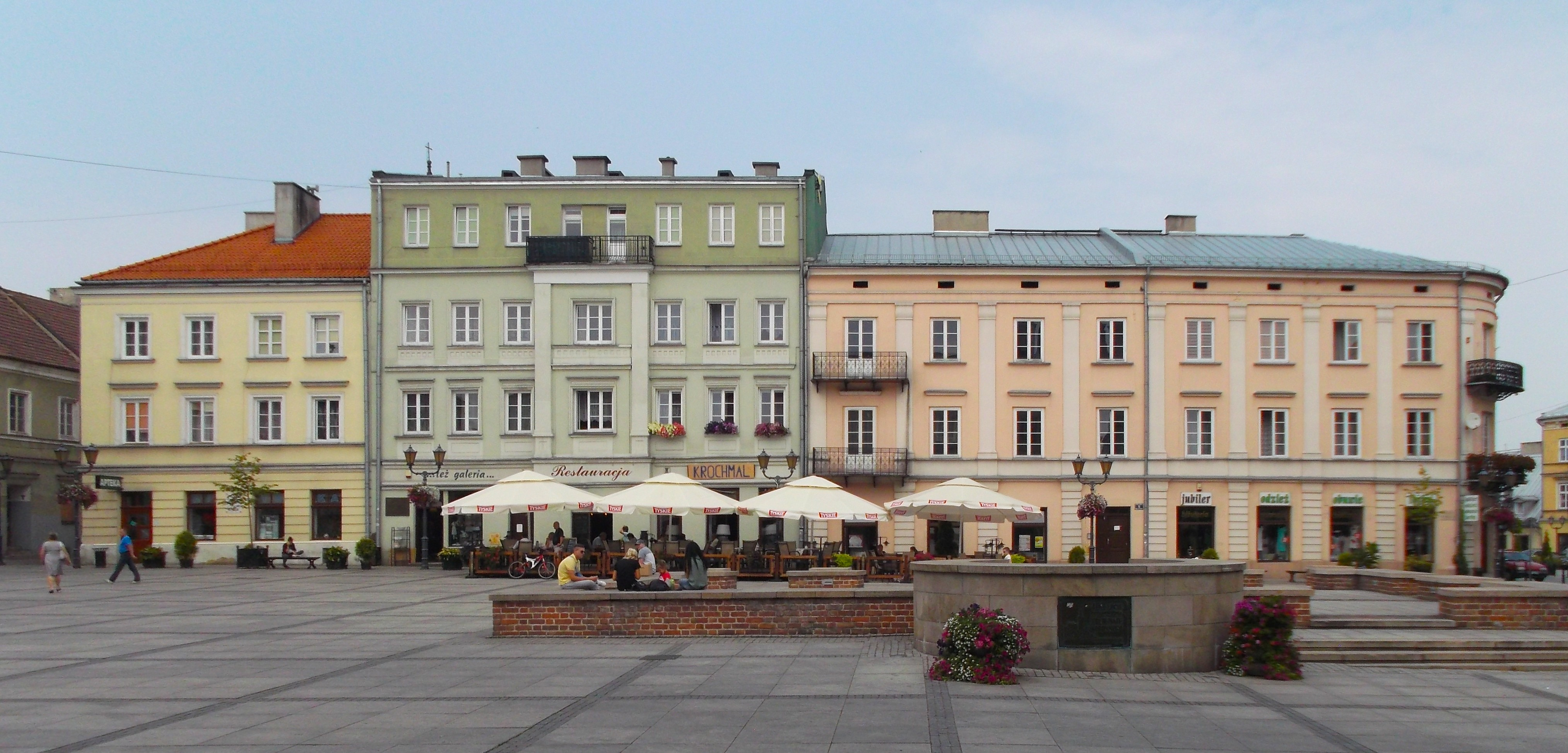 Old town market in Piotrków Trybunalski (Poland), north side.